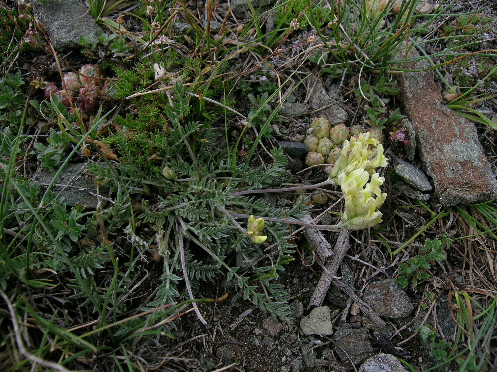 Oxytropis campestris Zermatt, Riffelberg (Kanton Wallis, Switzerland), 2500 m Author: Roland Teuscher – own photograph Date: 1.08.06